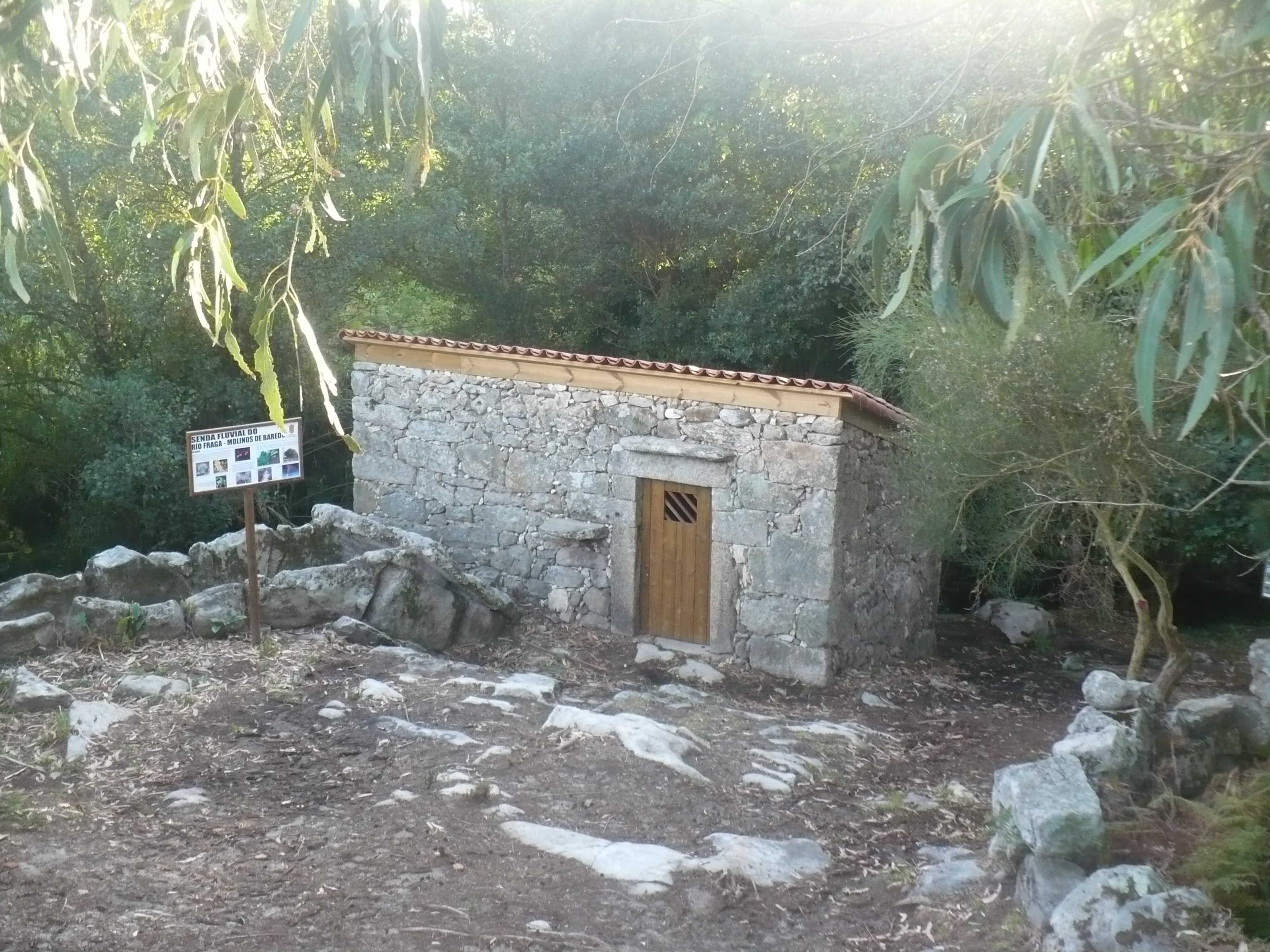 Water mills in Fraga River, Baiona (Galiza - Spain).